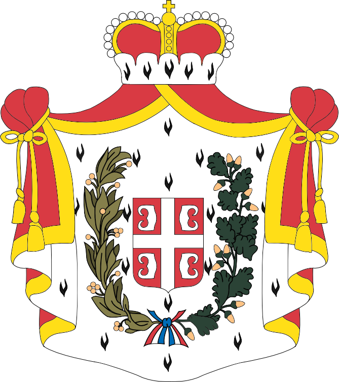 Coat of Arms of Principality of Serbia